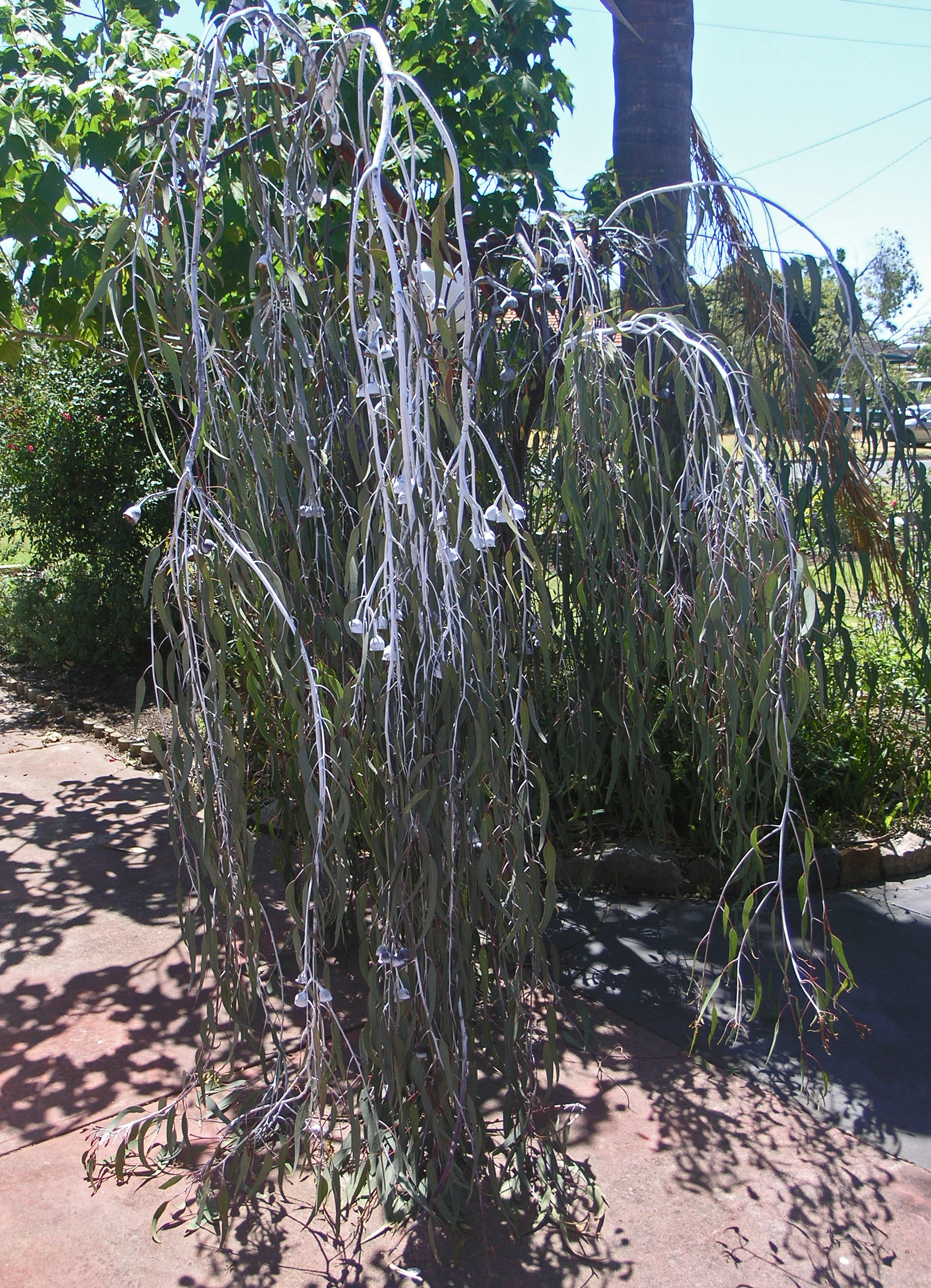 Silver Princess tree taken in Perth WA, by myself for this page: Silver Princess